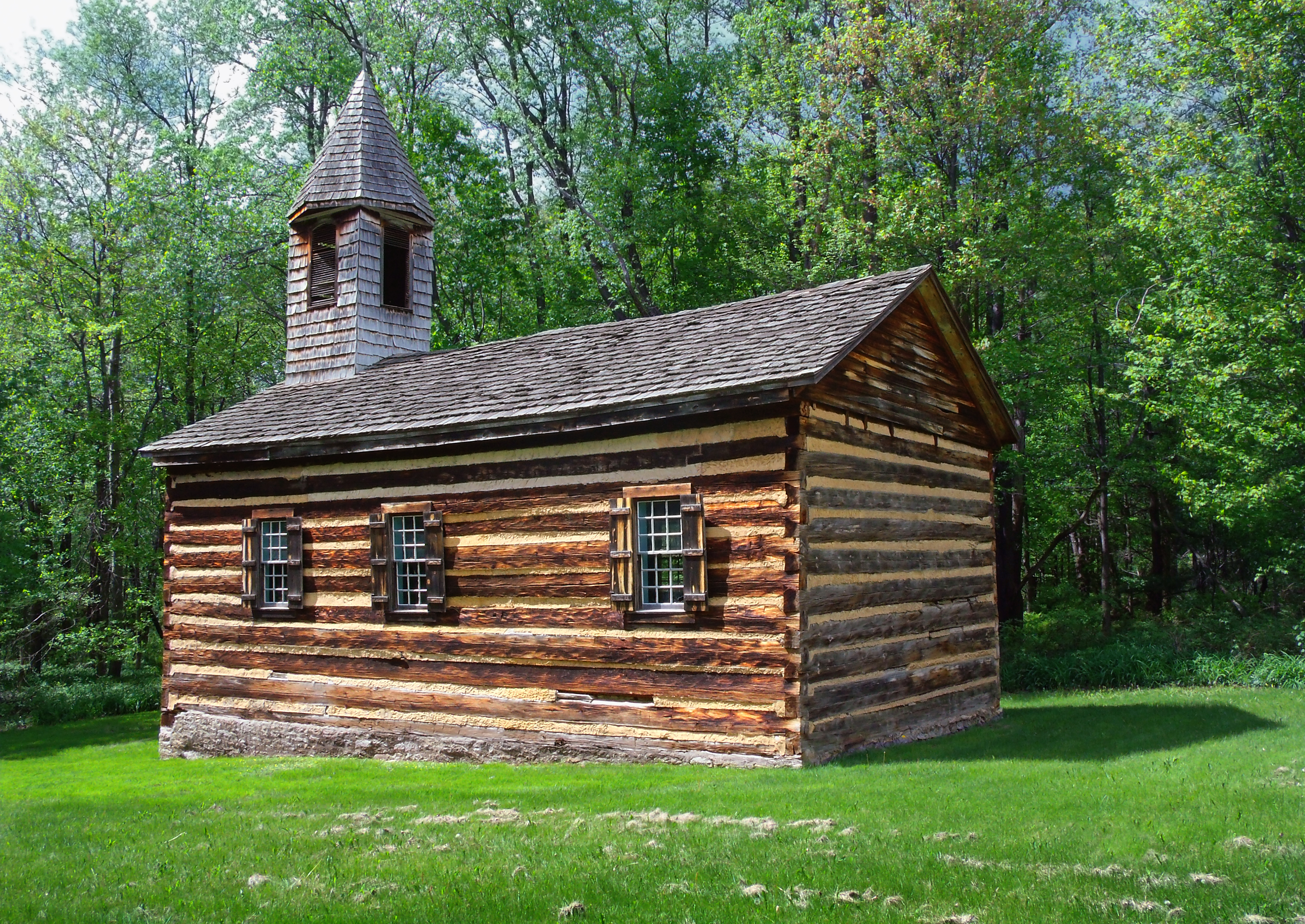 Along PA Route 53 in Cooper Township, Clearfield County. Built in 1851 by German Catholic settlers, the church is listed in the National Register of Historic Places.